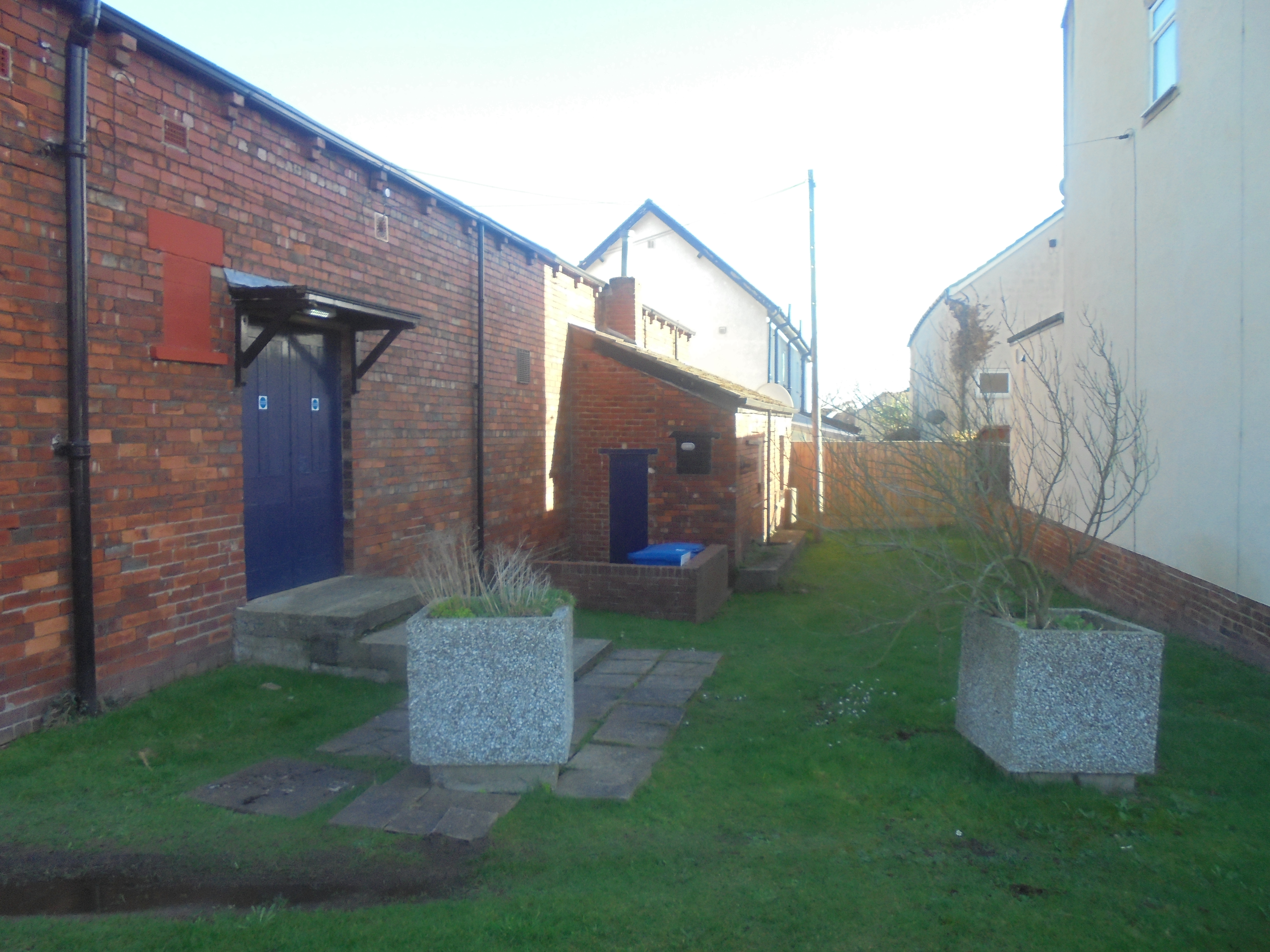 Wetherby Film Theatre, Crossley Street, Wetherby, West Yorkshire. Taken on the afternoon of Saturday the 9th of March 2019.